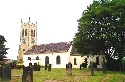 Knottingley- St Botolph's Church.